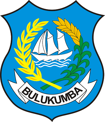 Bulukumba Regency Logo